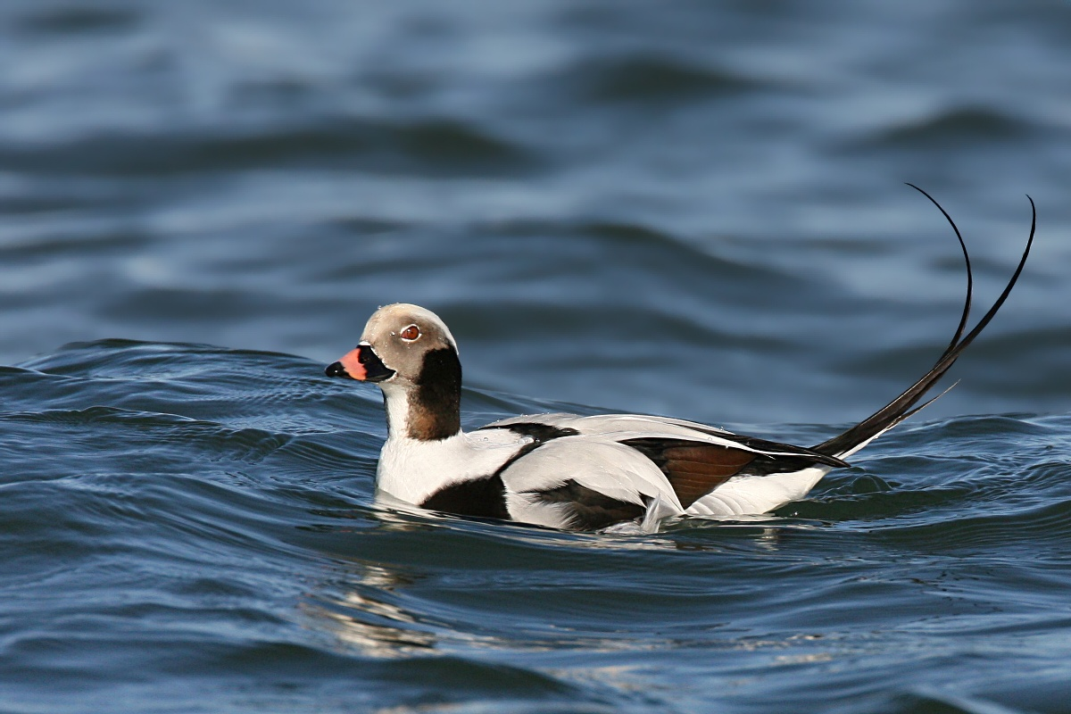 Long-tailed Duck Clangula hyemalis, Long Island, New York